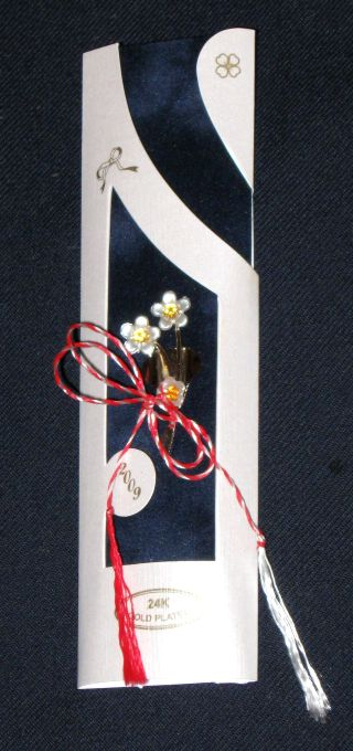 "Mărţişor", gold plated.